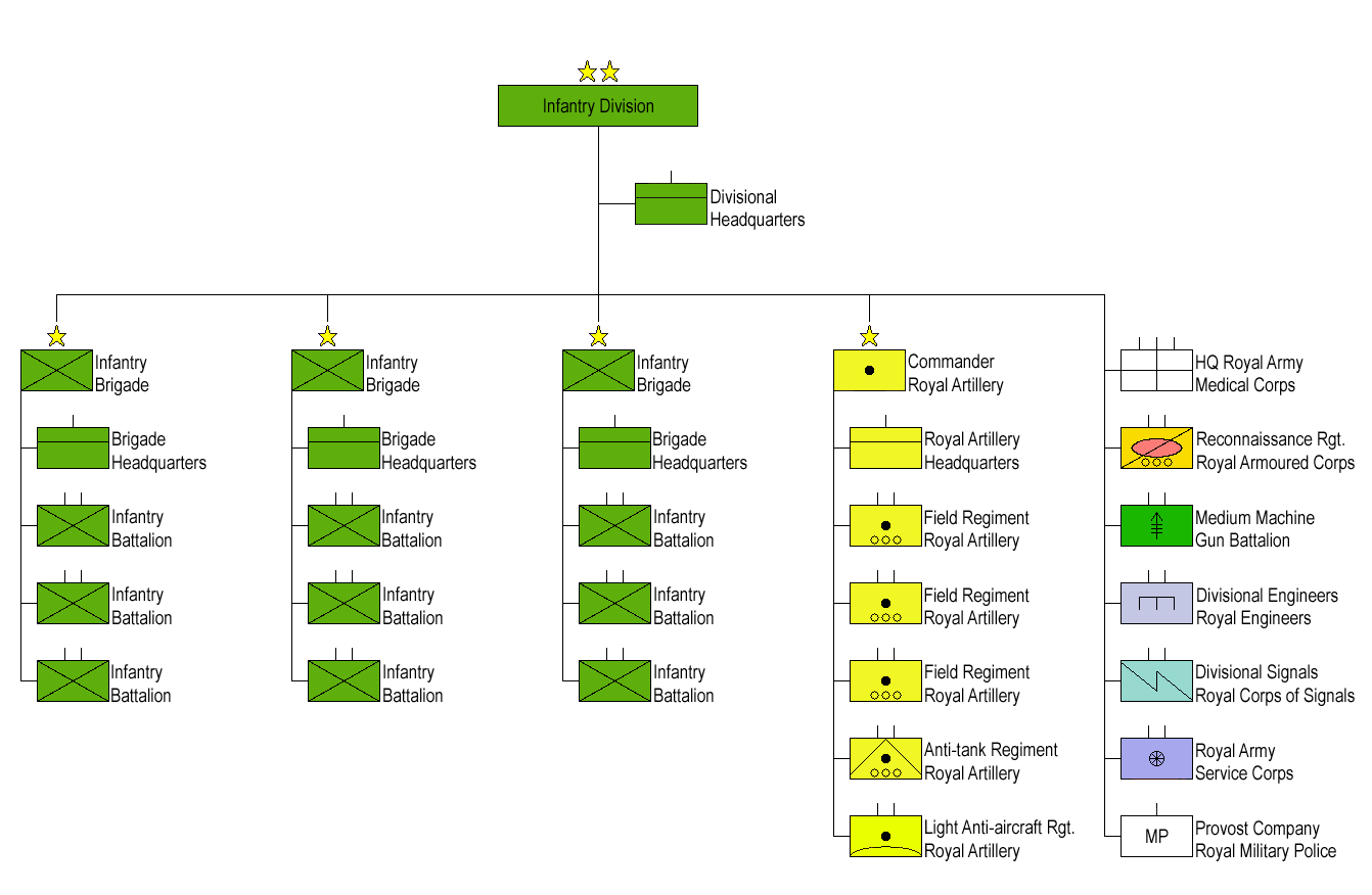 Great Britain: World War II Infantry Division Structure